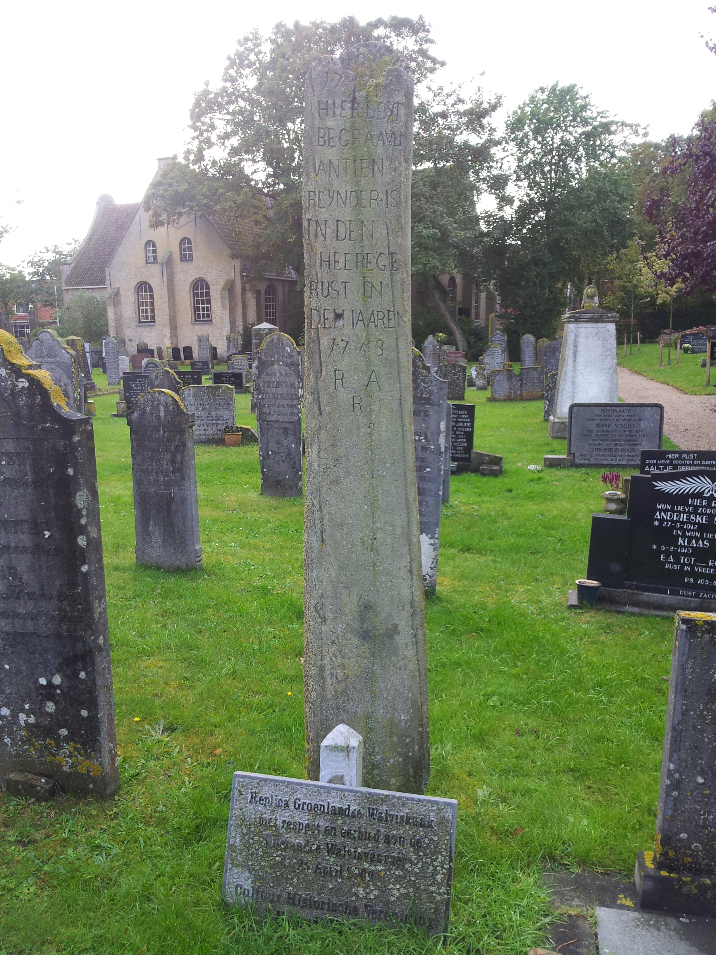 Whale jawbone used as gravestone on Vlieland Churchyard